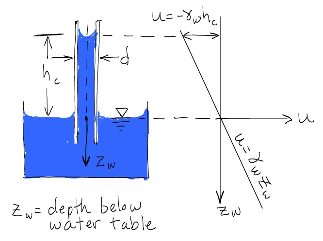 Conceptual sketch showing water in a capillary tube, with graph of water pressure in the capillary tube.